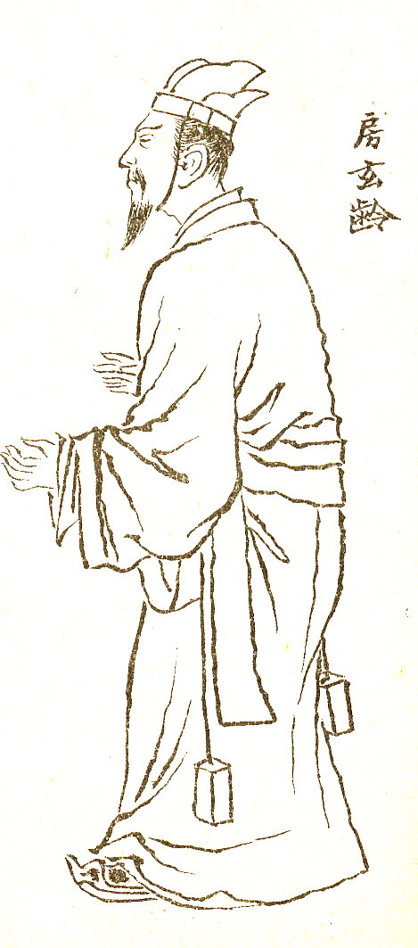 Fang Suanling (房玄齢)was a Chinese politician and historian in the Tang Dynasty（唐朝）.This picture was drawn by Kikuchi Yosai（菊池容斎） who was a painter in Japan.